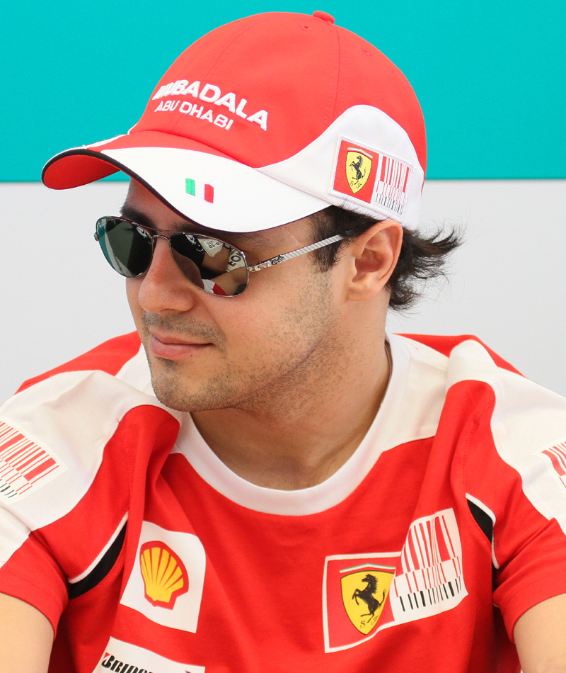 Formula One 2010 Rd.3 Malaysian GP: Felipe Massa (Ferrari) at autograph session on Sunday.